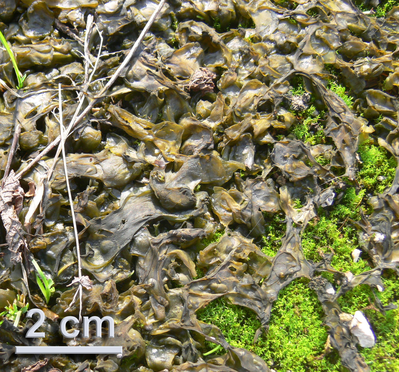 Nostoc (primitive bacteria) collected on a path of limestone materials (metal-rich; industrial waste from the metallurgical factory Sollac of Dunkirk (now Arcelor-Mital), on the edge of the channel of Noeufossé, on the territory of Renescure (North County ) The place is locally named pont Asquin ("Asquin Bridge.")